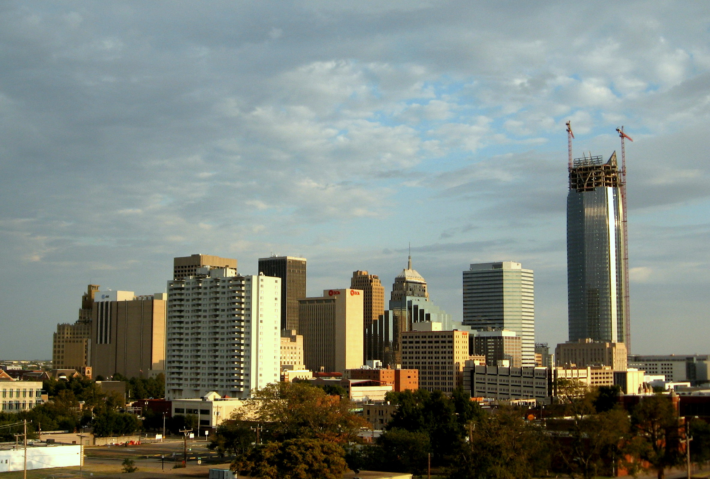 Downtown Oklahoma City from the northwest.